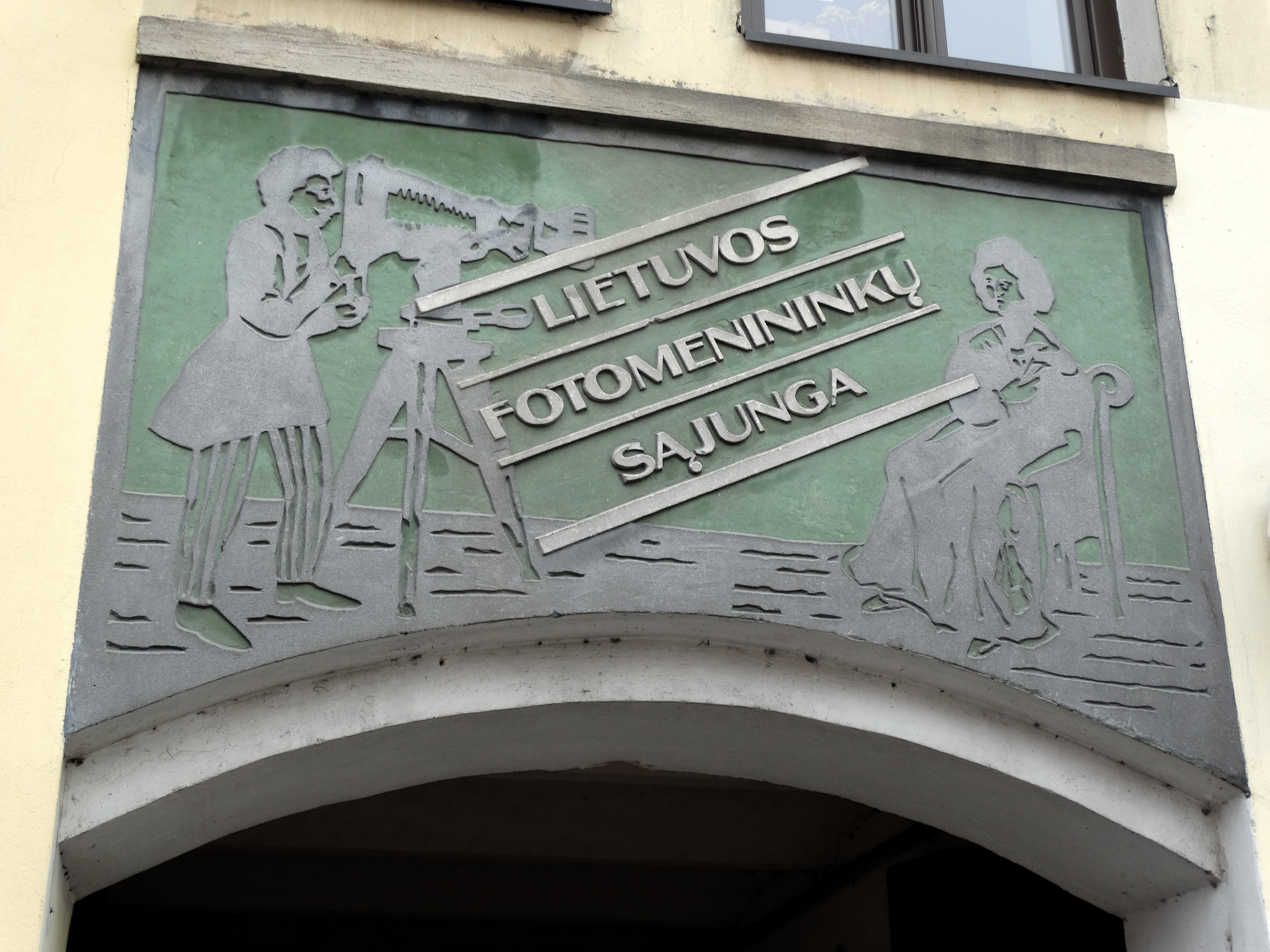 Union of Art Photographers, Kaunas, Lithuania